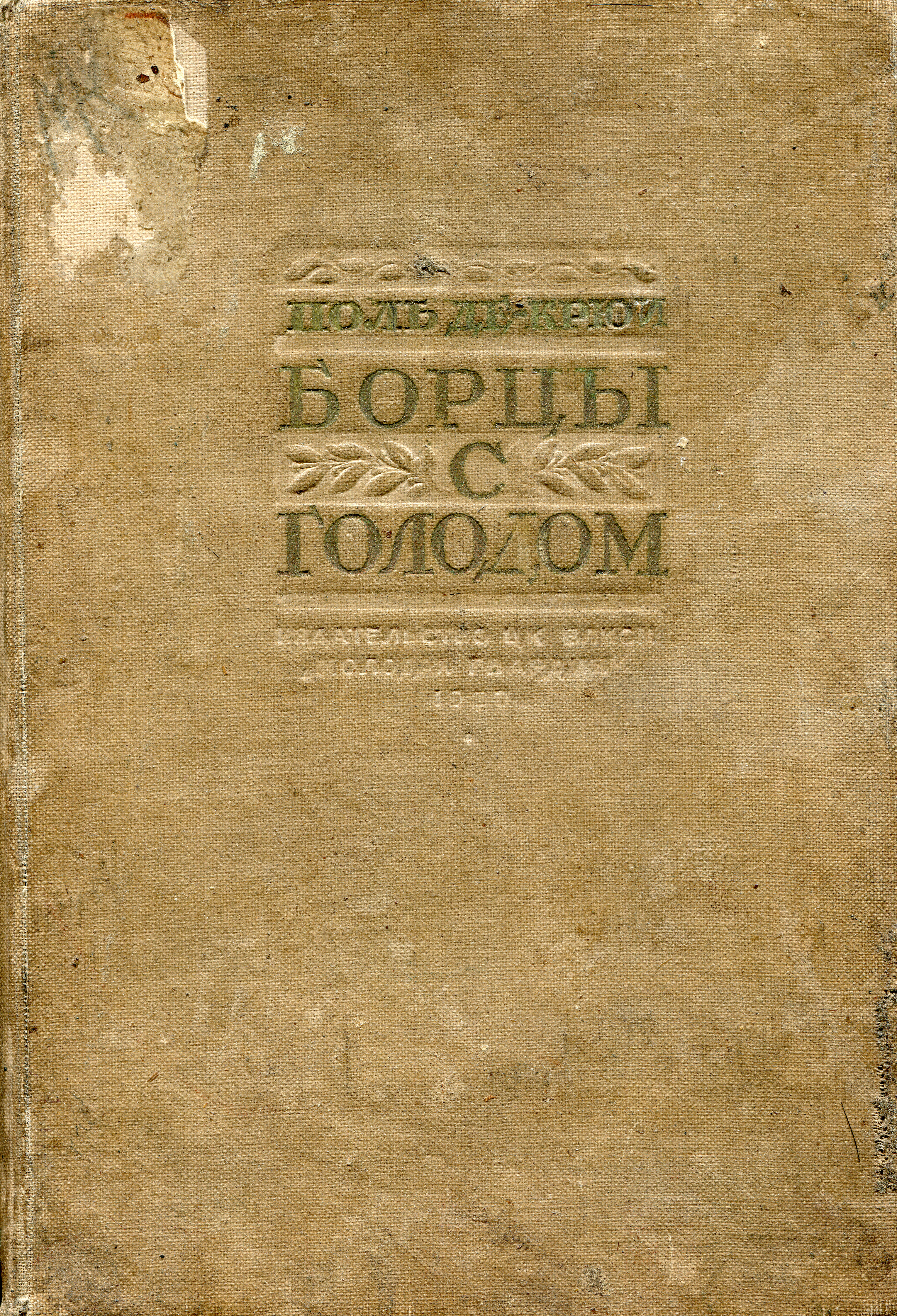 Paul de Kruif. The book "Hunger Fighters". Publishing house "Young Guard", 1938.